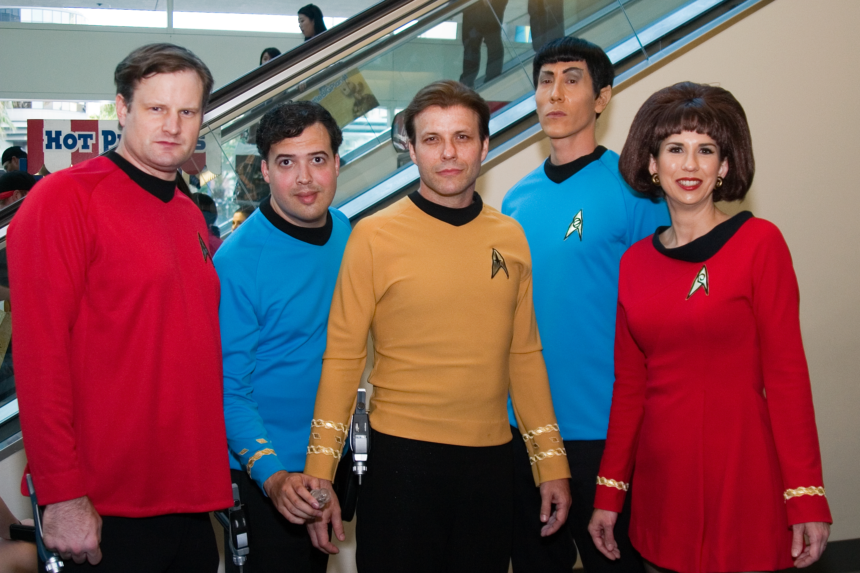 San Diego Comic-Con 2008 day 1. I can't actually name all of them.